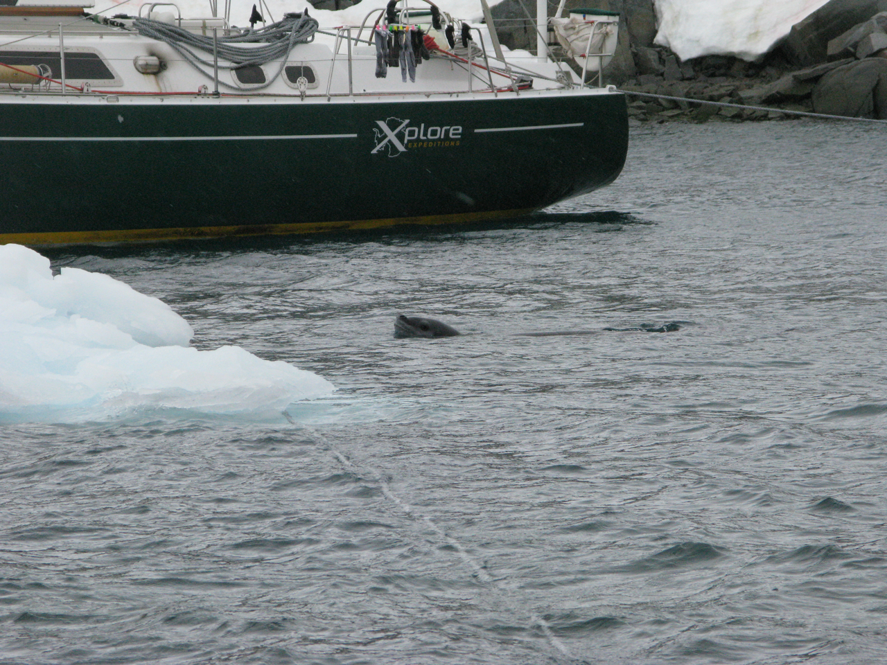 Leopard Seal, Hydrurga leptonyx, Port Lockroy, Antarctica